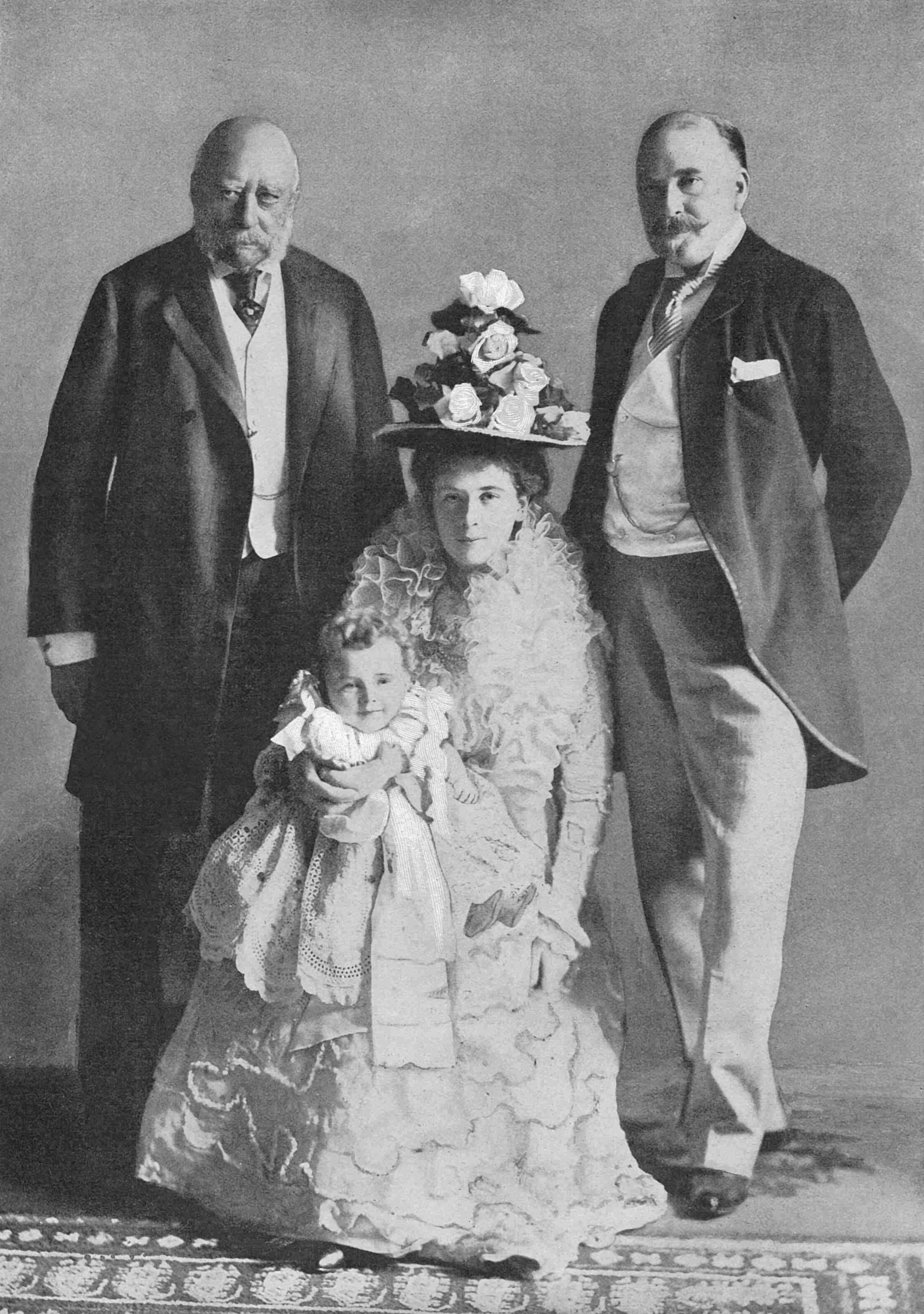 Portrait of Prince George, Duke of Cambridge (left), his son Sir Adolphus FitzGeorge (right), his granddaughter Olga FitzGeorge (center), and his great-grandson George Edward Archibald Augustus FitzGeorge-Hamilton (center), photographed in 1900.